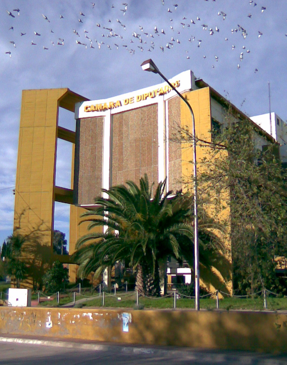 Edificio de la Cámara de Diputados de La Pampa.